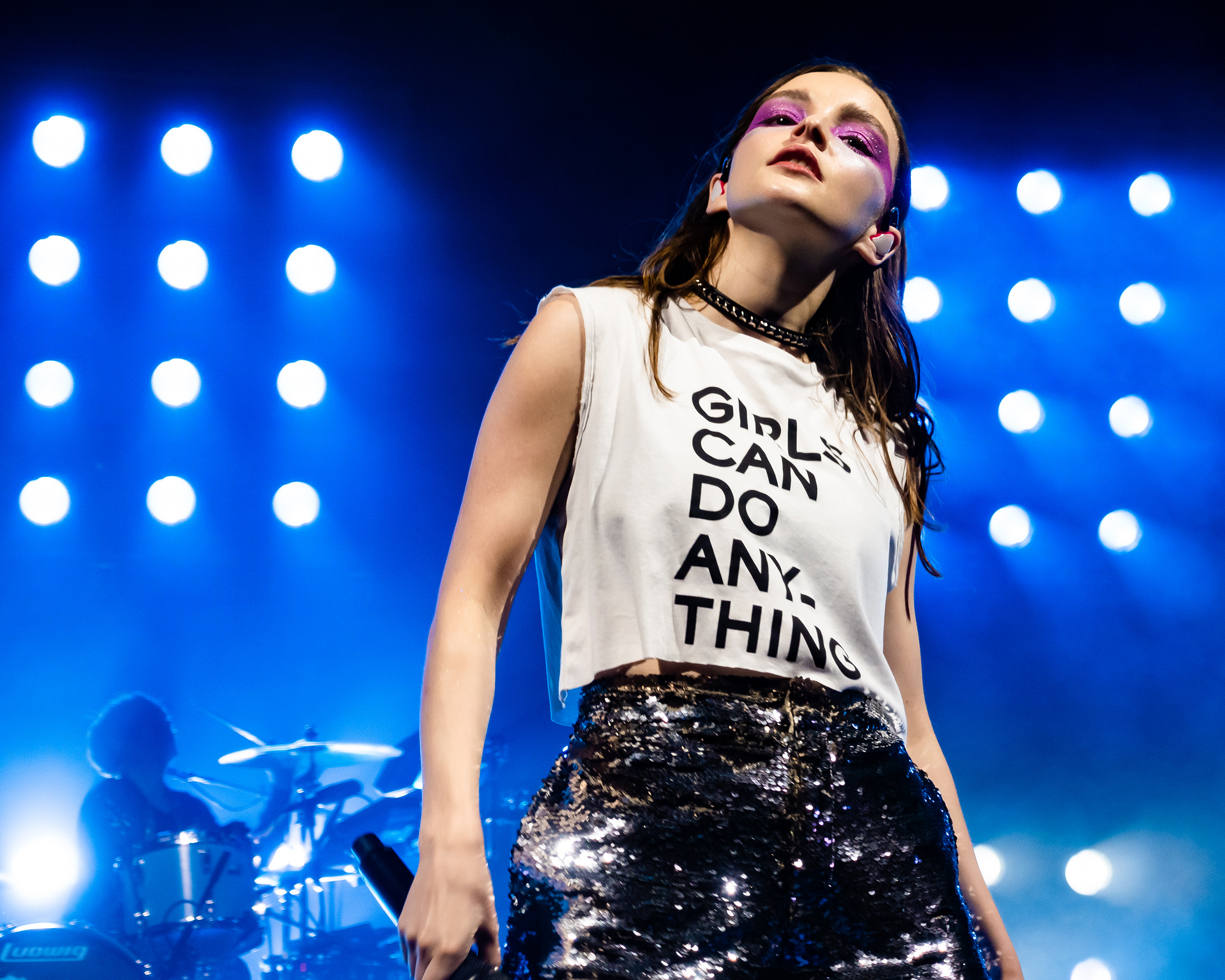 Chvrches performing live at The Greek theatre in Griffith Park, Los Angeles, California, on Sunday, September 23, 2018.